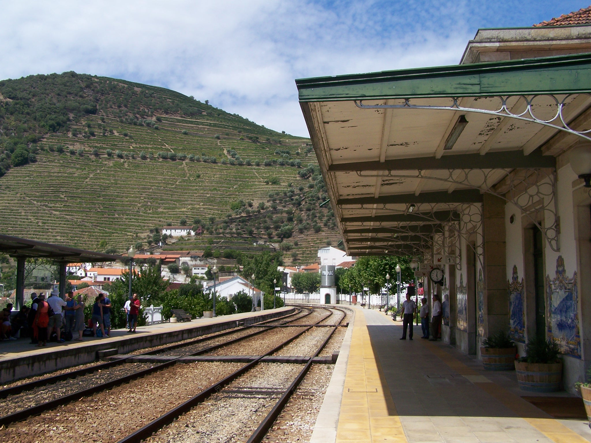 Pinhão train station with vineyards in the background, Portugal